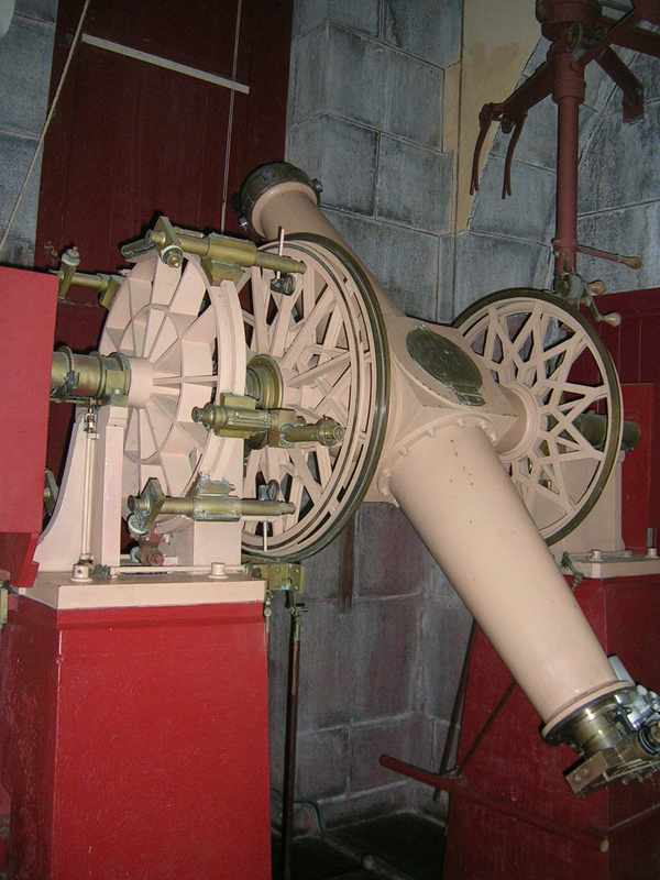 Meridian lens of Abbadia castle, Hendaye (France)